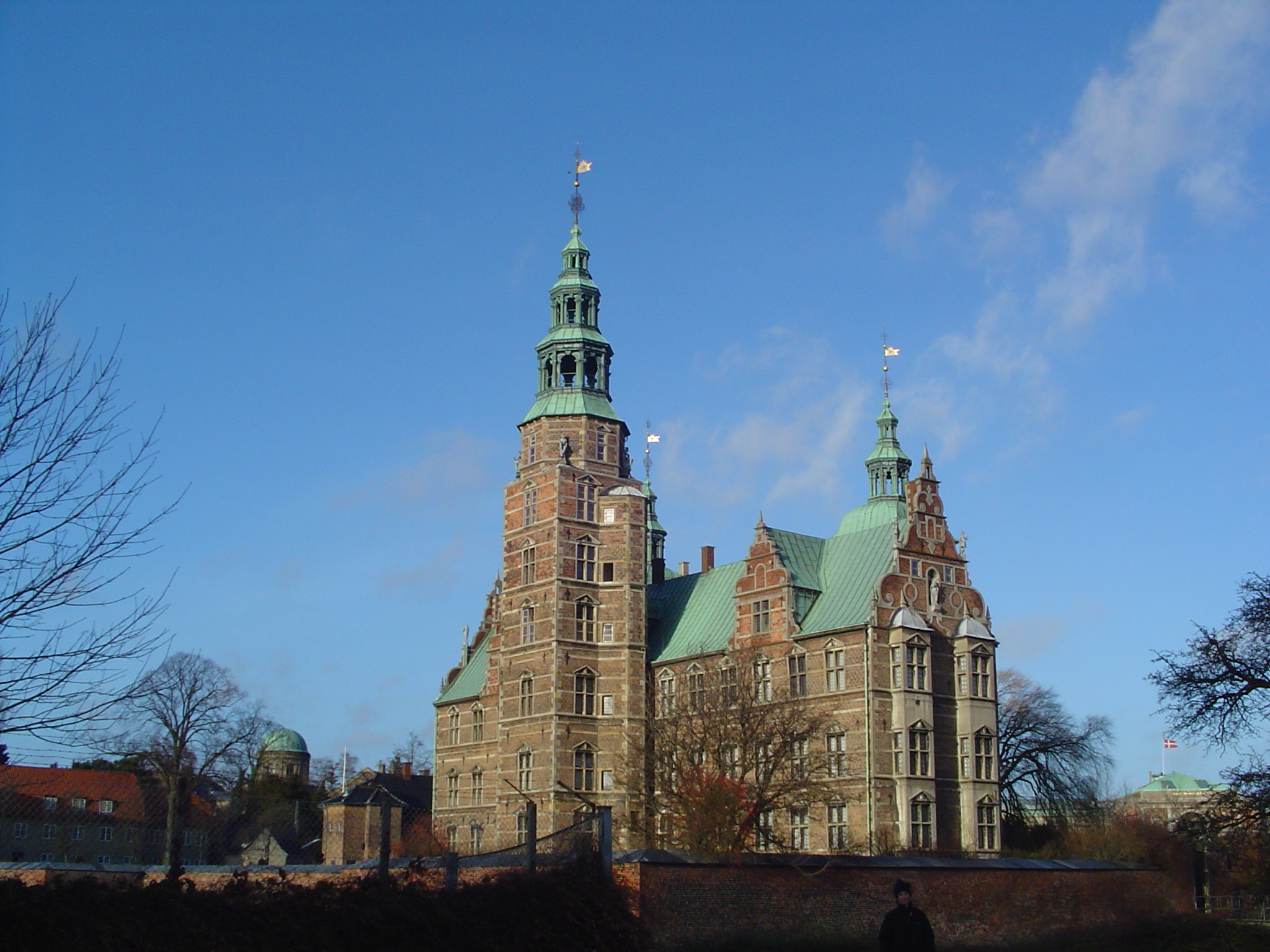 Rosenborg castle at Copenhagen, Denmark